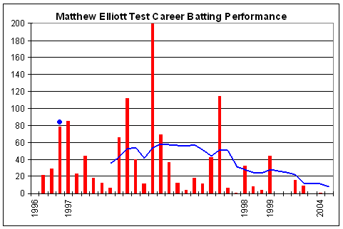 Test batting chart of Matthew Elliot. Red columns are the runs in the innings. Blue dots indicate not outs. Blue line is average in the last ten innings. Thanks to Raven4x4x for providing the template.